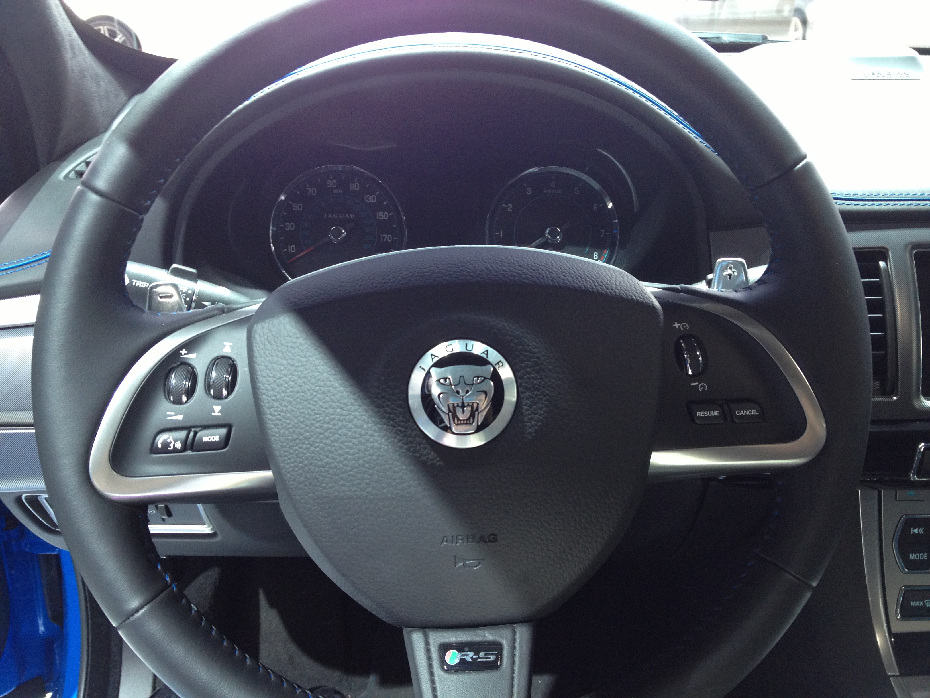 2013 North American International Auto Show Detroit, Michigan